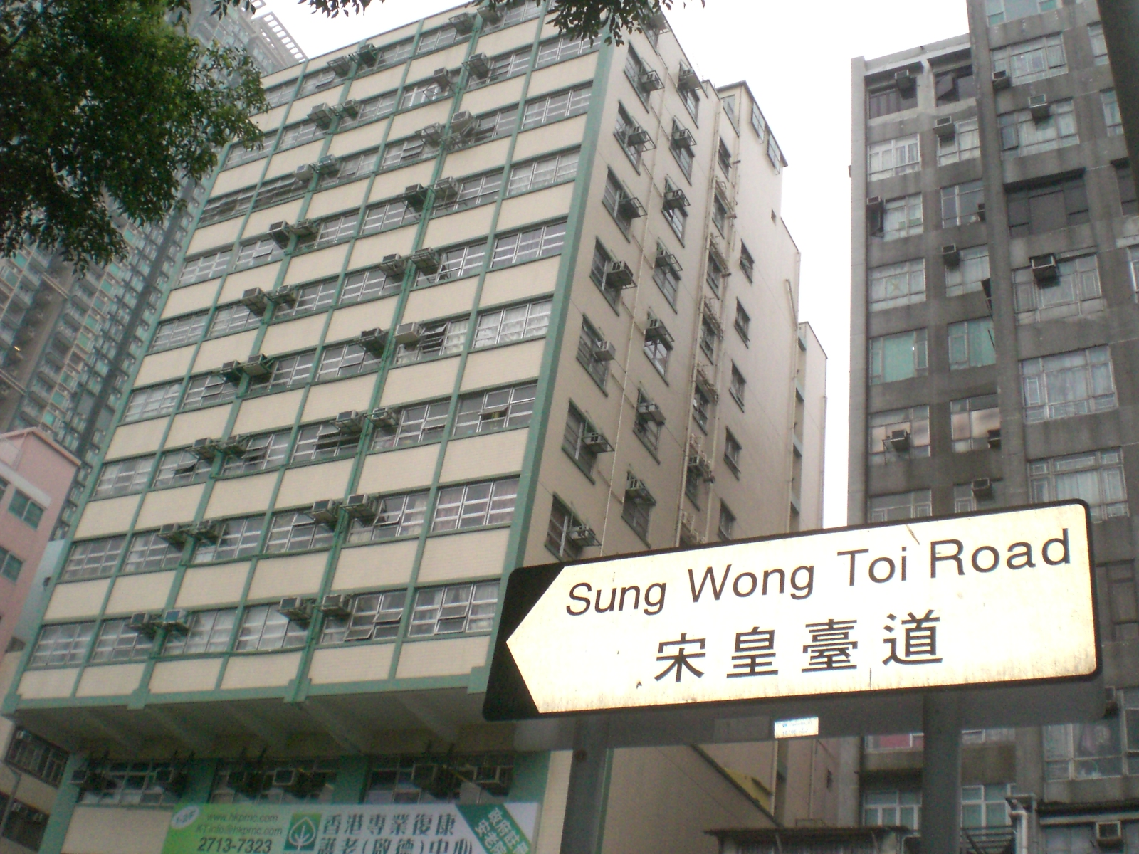 宋王臺道